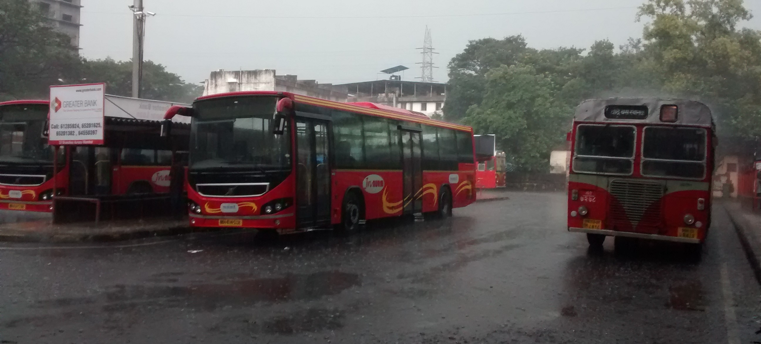 BEST and NMMT buses at CBD Belapur Bus Station